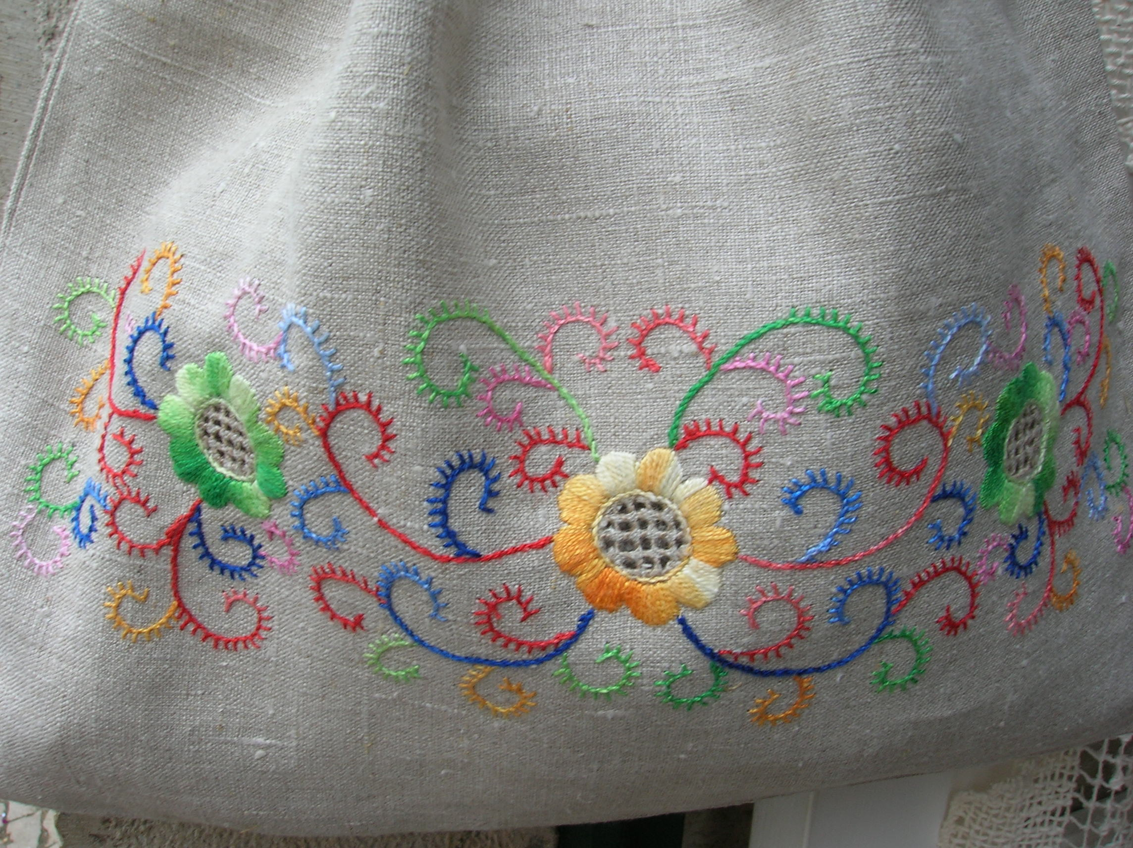 Embroidery in a bag